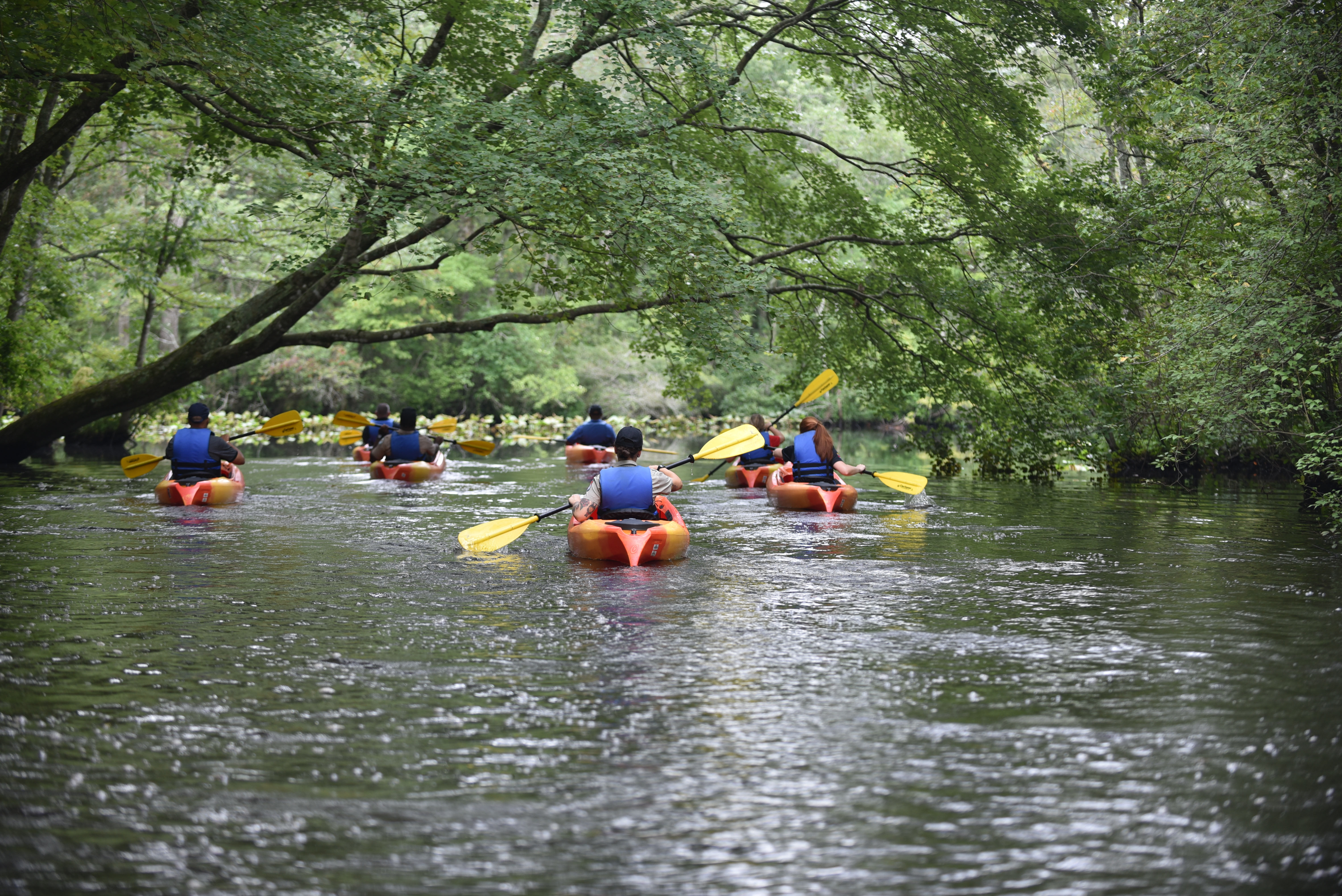 Lt. Governor Rutherford Visits Pocomoke River State Park by Patrick Siebert at 3461 Worcester Hwy, Snow Hill, MD 21863